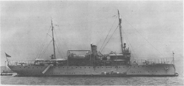 USS Tulsa (PG-22) at Hong Kong, April 1941